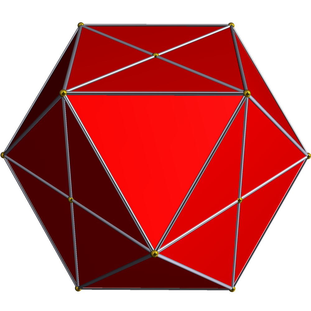 Convex regular polychoron: en:24-cell {3,4,3} - solid, orthogonal projection The copyright holder of this file, Robert Webb, allows anyone to use it for any purpose, provided that the copyright holder is properly attributed. Redistribution, derivative work, commercial use, and all other use is permitted. Attribution: Attribution must be given to Robert Webb's Stella software as the creator of this image along with a link to the website: A complimentary copy of any book or poster using images from the Software would also be appreciated where feasible. This work is free and may be used by anyone for any purpose. If you wish to use this content, you do not need to request permission as long as you follow any licensing requirements mentioned on this page.